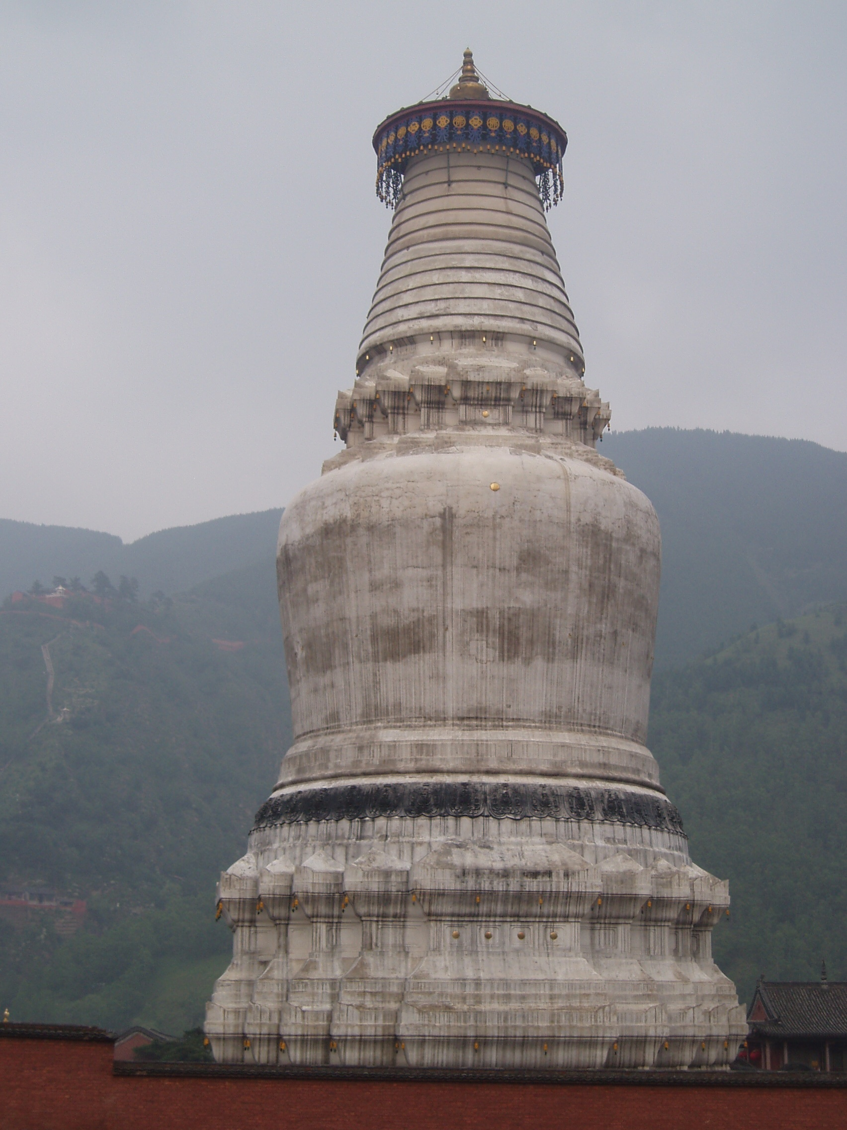 The Great White Pagoda of Tayuan Temple in Wutaishan, China. It was built in 1582 (as inscribed on a stone tablet there), during the Ming Dynasty.